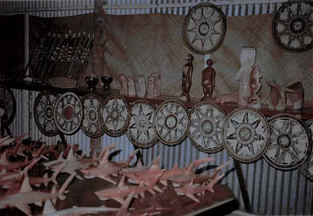 Ponape(Pohnpei) Handicraft Shop